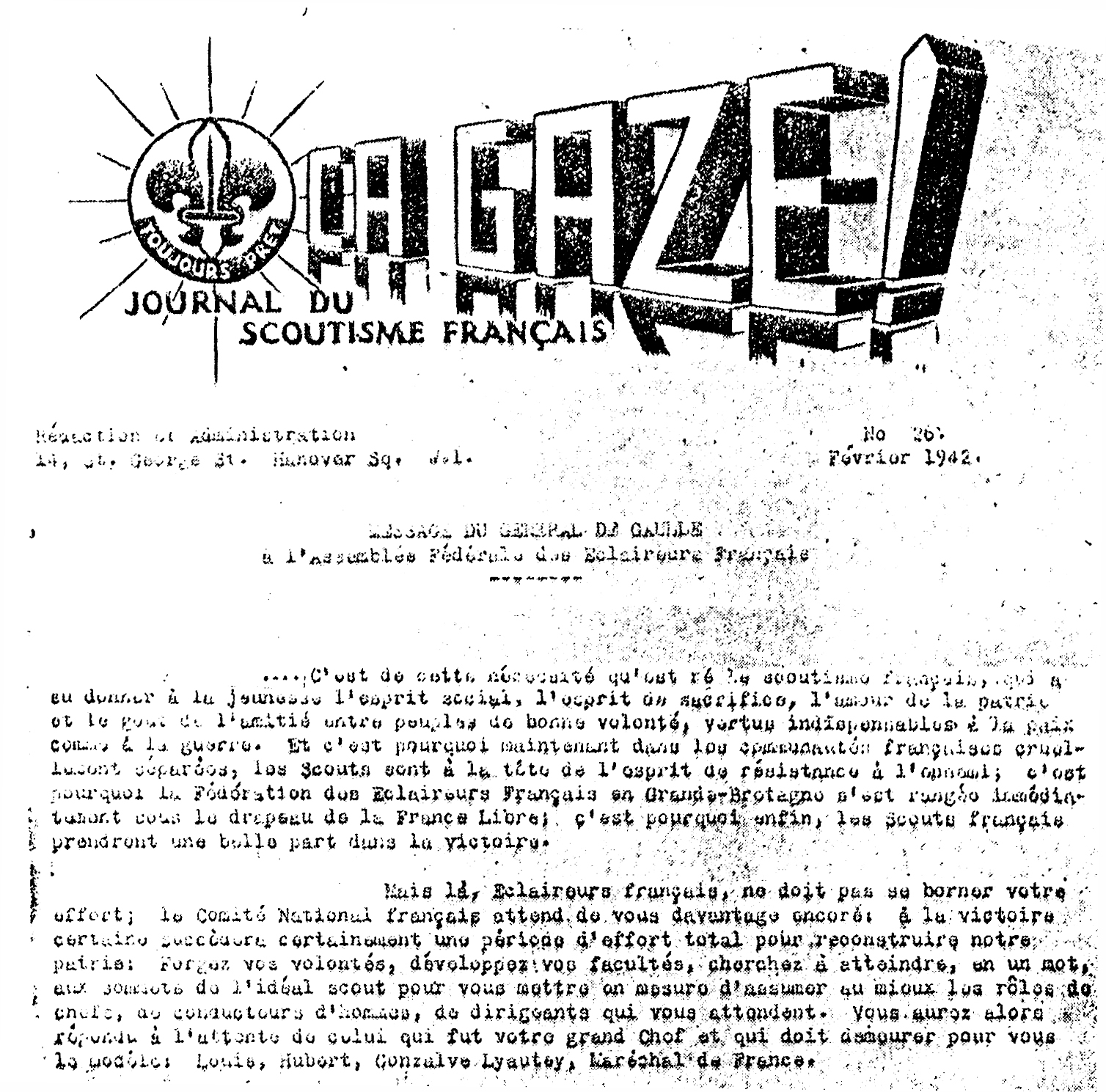 Cover of Ça gaze, the newspaper of the Éclaireurs français en Grande-Bretagne (« French scouts in Great Britain »), the scout movement of the Free French, with a message from de Gaulle to the EFGB.